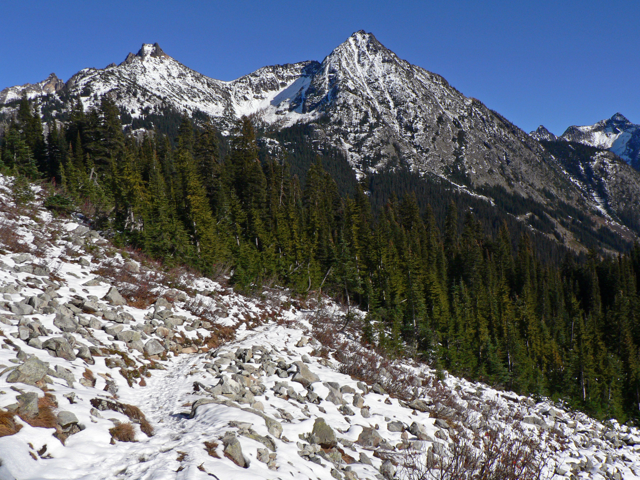 Whistler Mountain north (7720+ feet, left) and south (7790 feet, 2374 m, right center) peaks